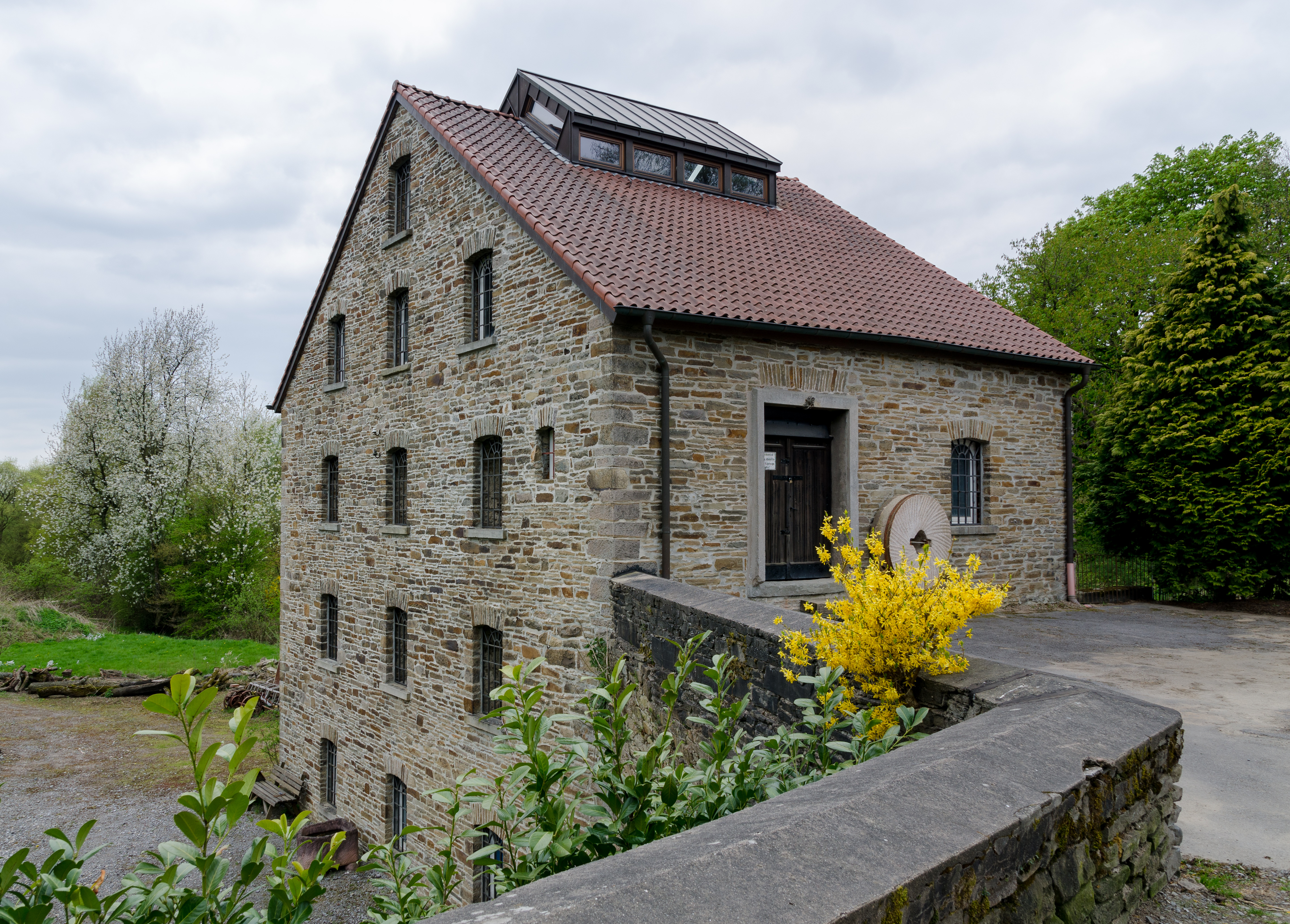 Mill house of Aprath, Germany